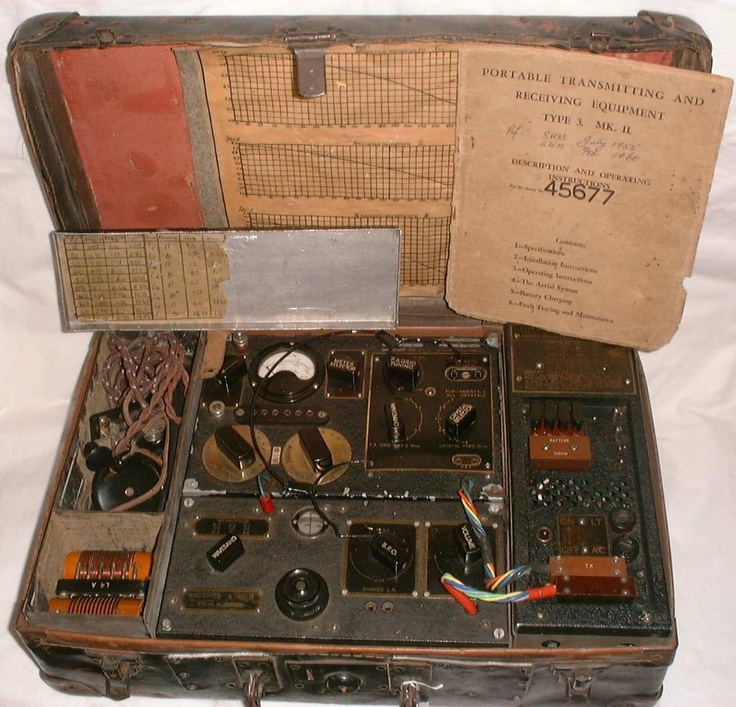 A British Type 3 Mark II Radio, more commonly known as the B2, made at the Marconi New Street factory in Chelmsford. Attridge helped assemble these radios.